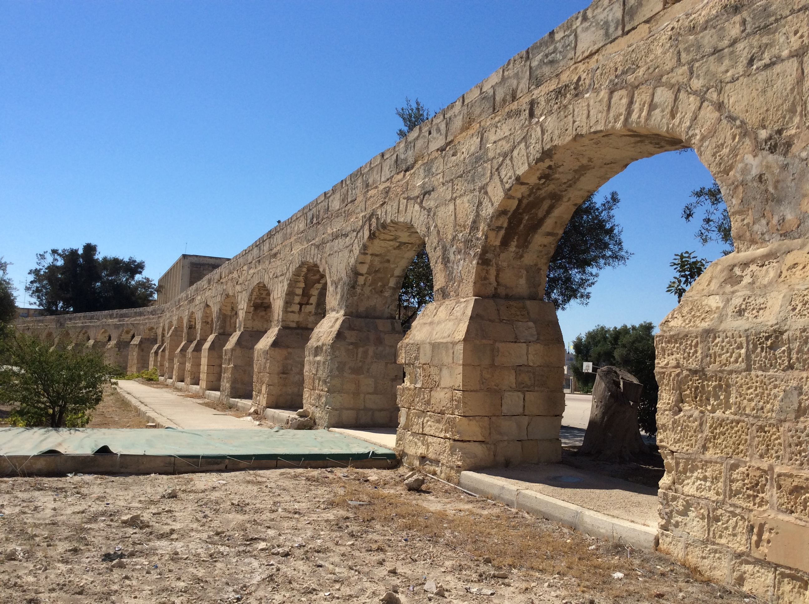 Aquaduct inside a government school